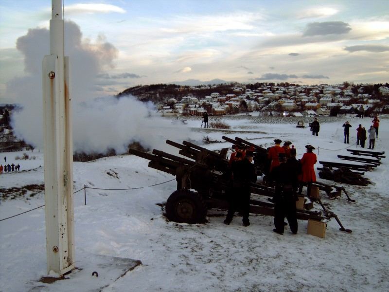 Gun salute at the Kristiansten Fortress in Trondheim, Norway celebrating the new Prince born December 3, en:2005. Image taken and released to the public domain by User:Kallemax on December 4, en:2005.